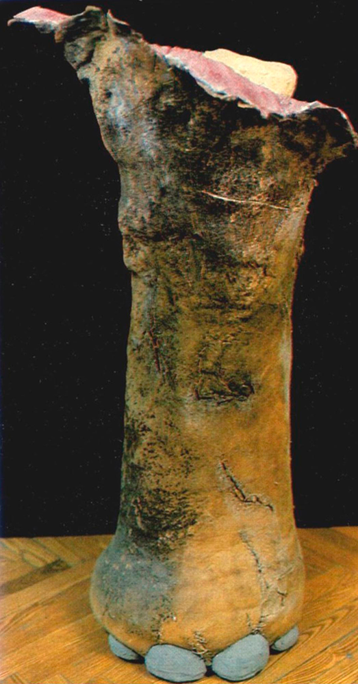 The restored right back leg of a 33,000-year-old woolly mammoth found in northeastern Siberia.